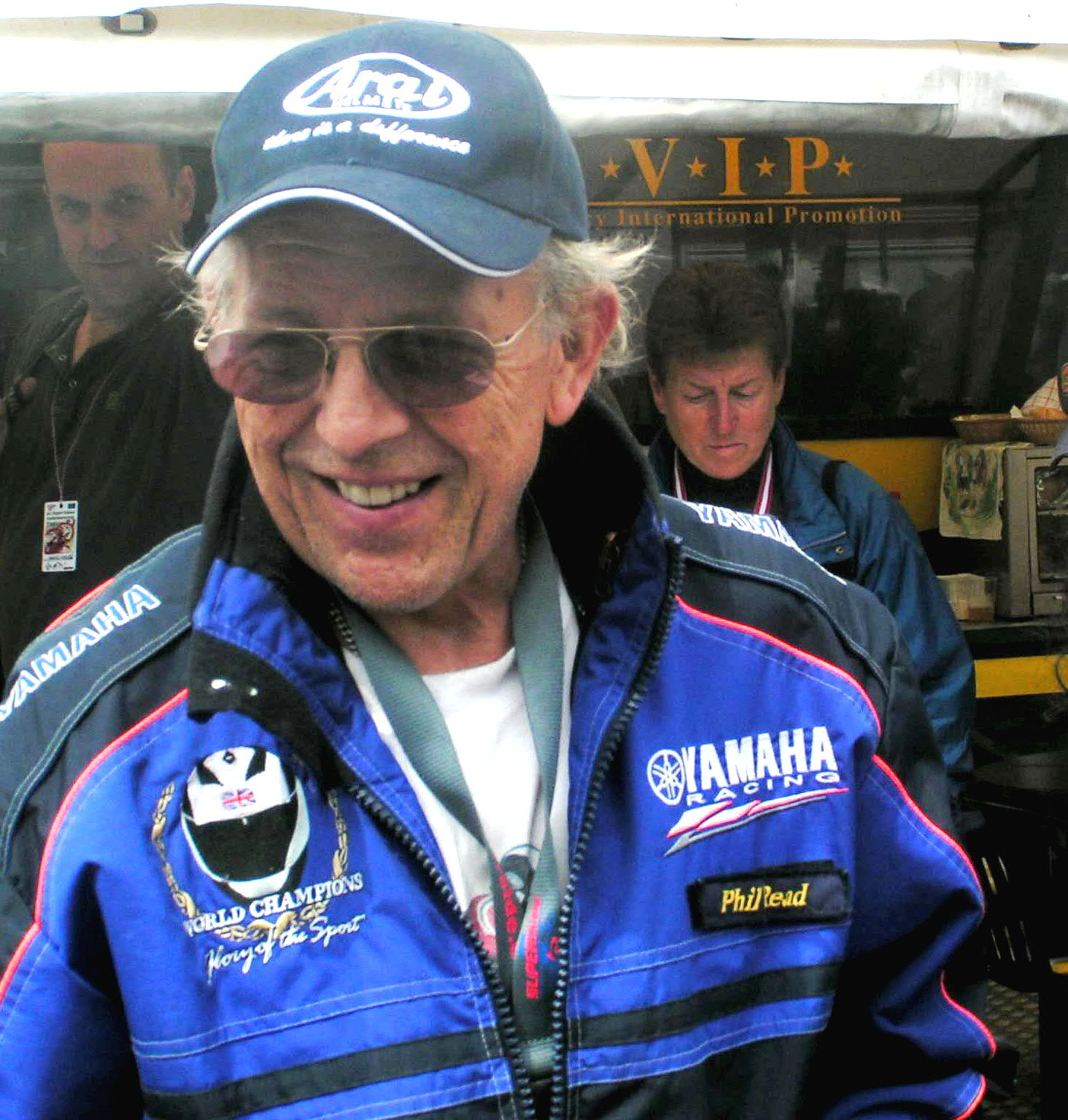 British former motorcycle road racer Phil Read on the Austrian Salzburgring.